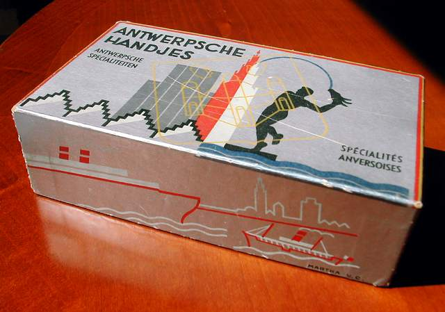 Martha Van Coppenolle - Illustrator Original design for the 'Antwerpse Handjes' chocolates, 1930's